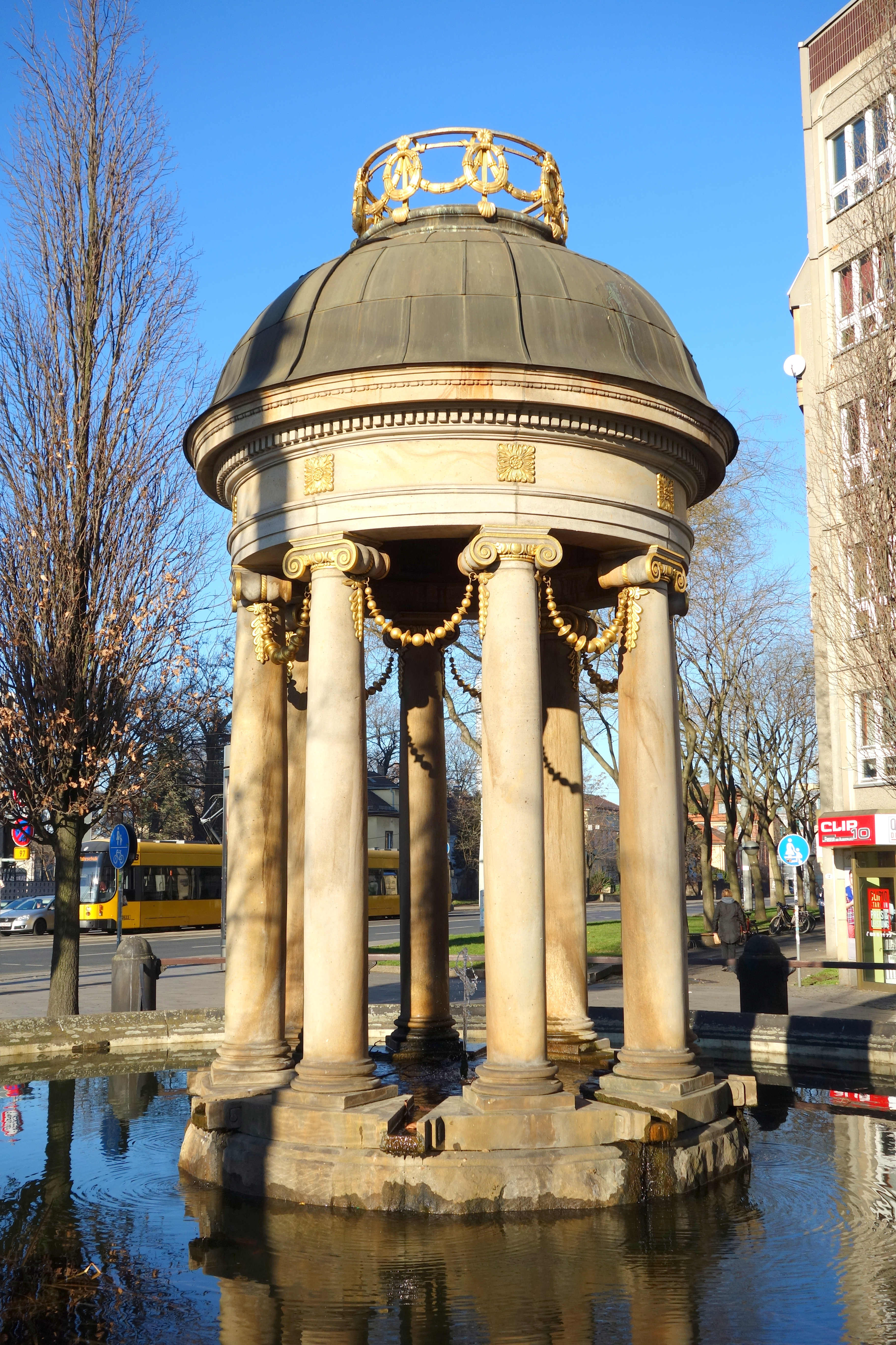 Artesischer Brunnen - Dresden, Germany.